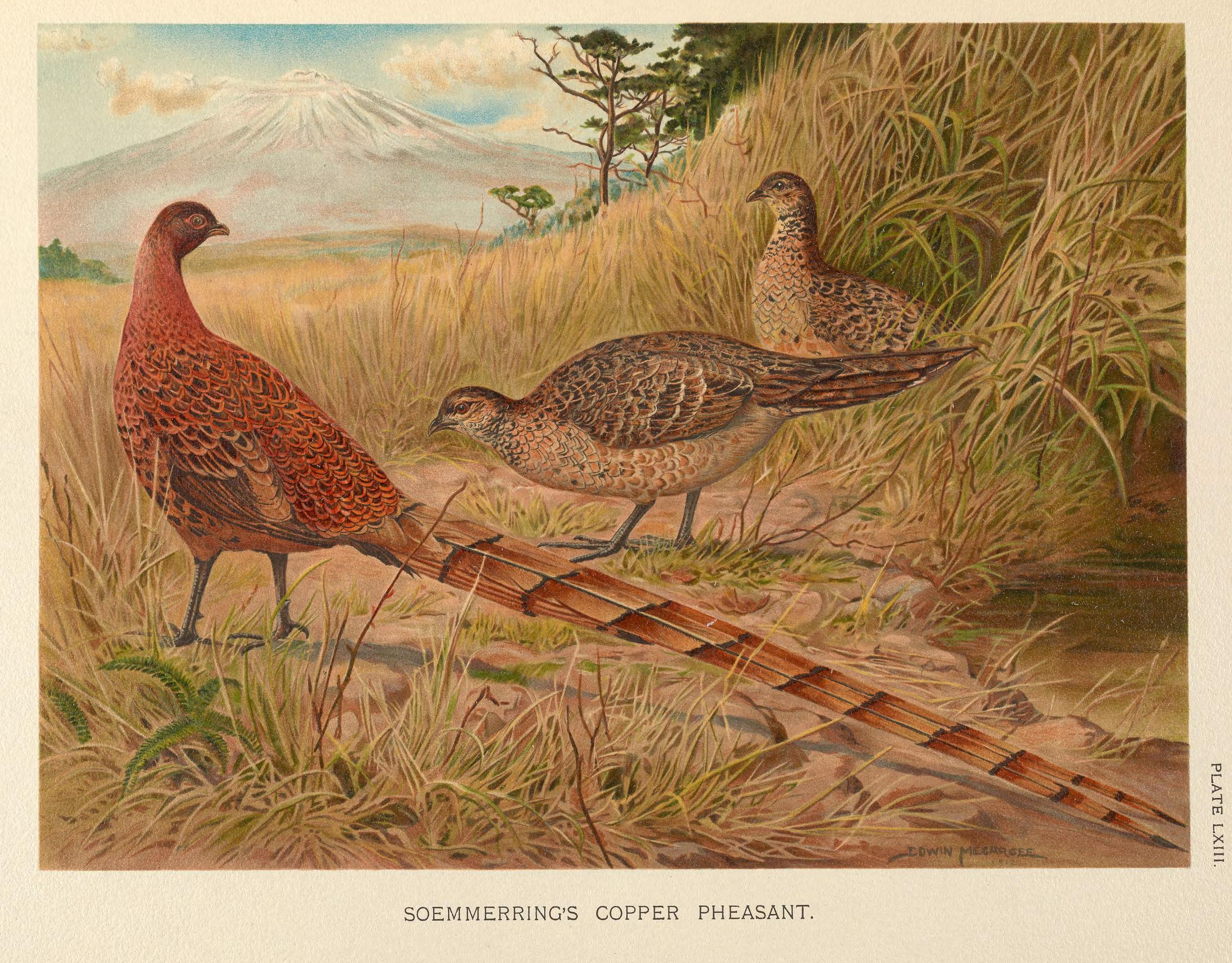 Soemmerring's Copper Pheasant (Syrmaticus soemmerringii)